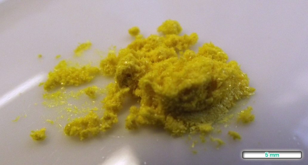 Photo of Nitrofural (Nitrofurazone, sold as a solution called: Furacin®), pure